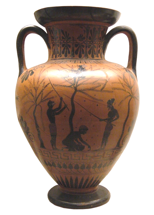 Scene of olive-gathering by young people. Attic black-figured neck-amphora, ca. 520 BC. From Vulci, Italy.